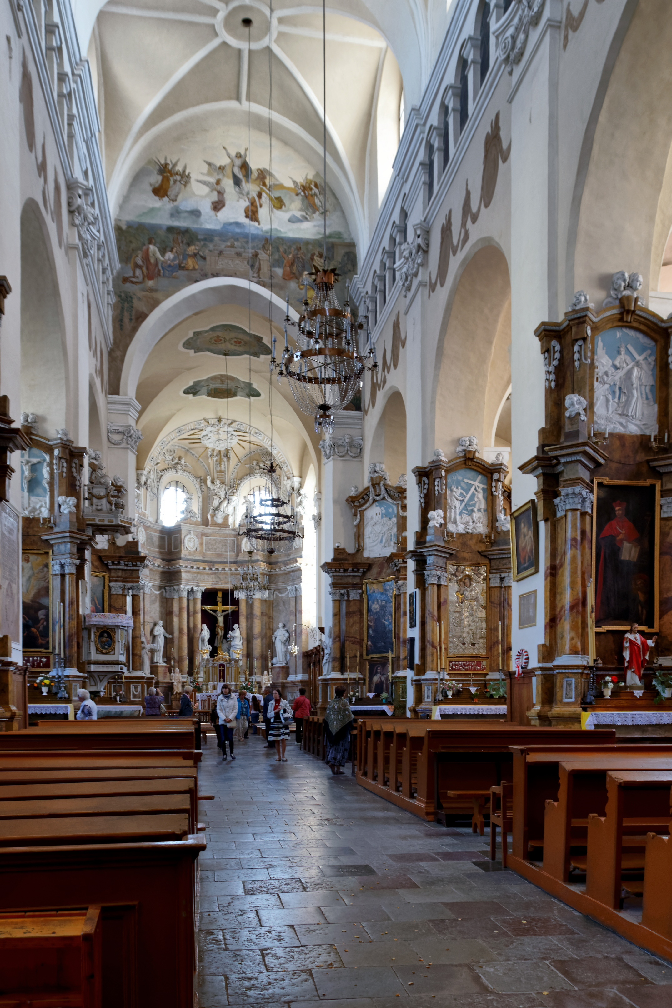 Grodno. Holy Cross Church